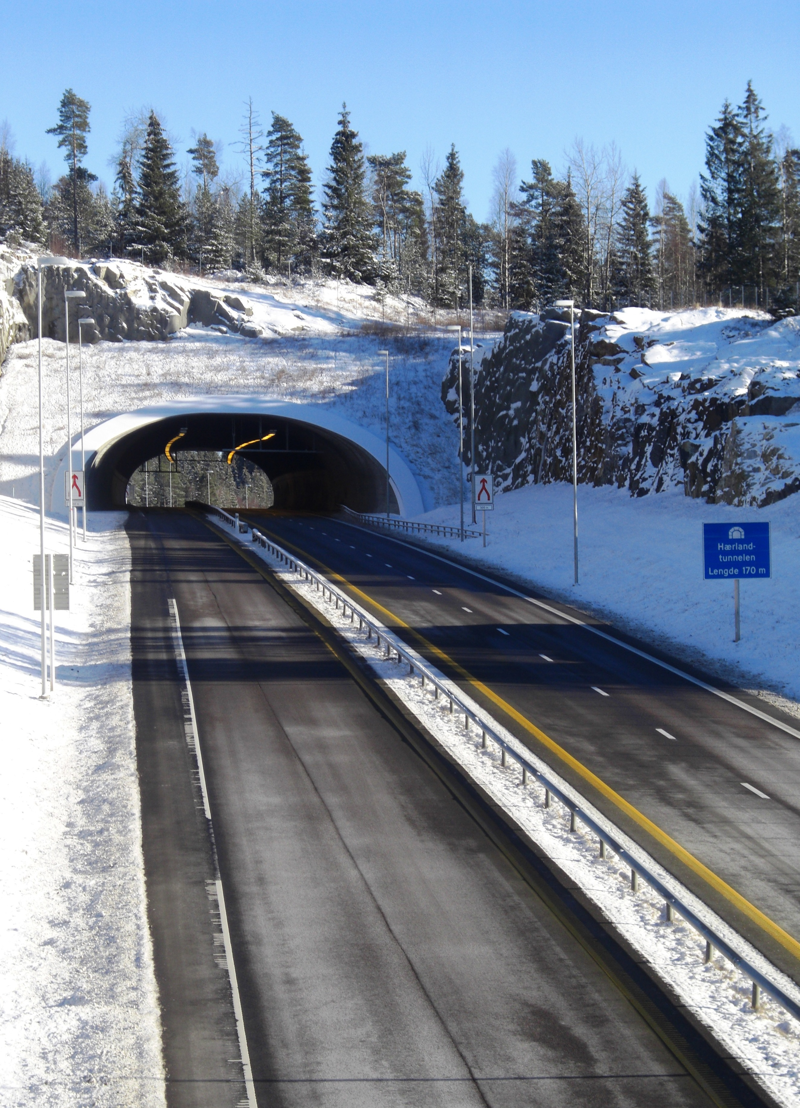 Hærland road tunnel